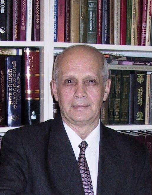 Victor Ovcharenko, a Russian philosopher and scientist.